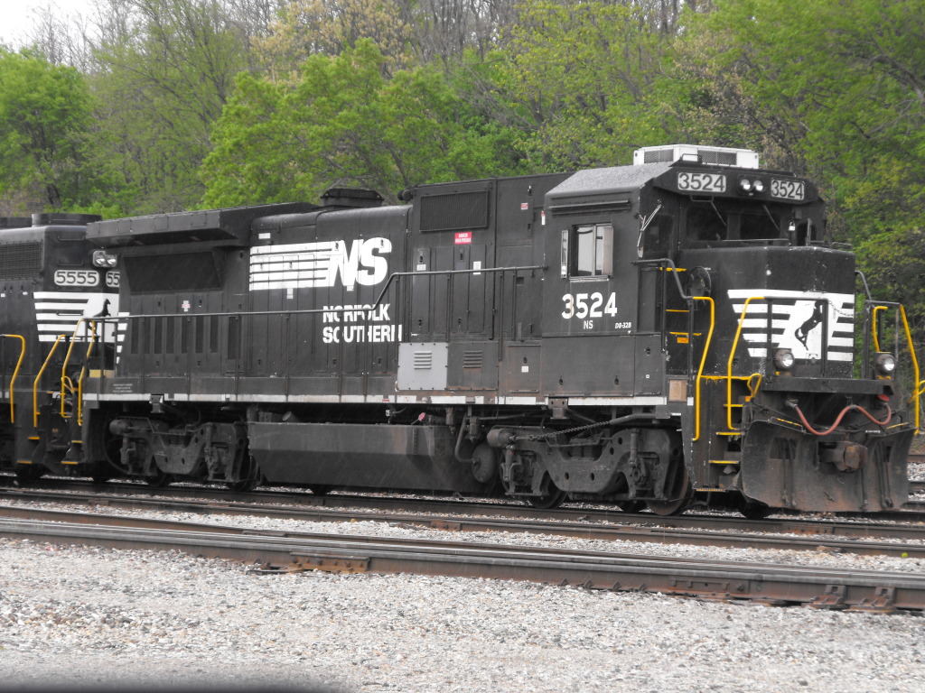 NS #3524 Battle Creek, Michigan